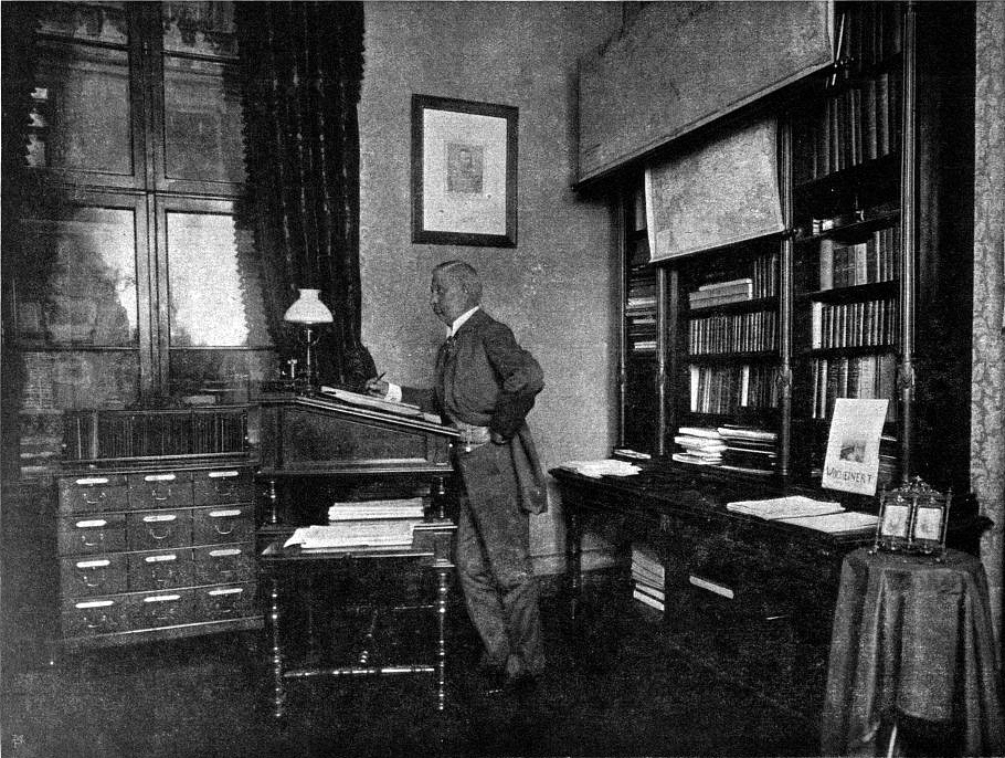 Heinrich Ritter von Wittek (1844-1930), Minister of Railways of Austria-Hungary, at his office.